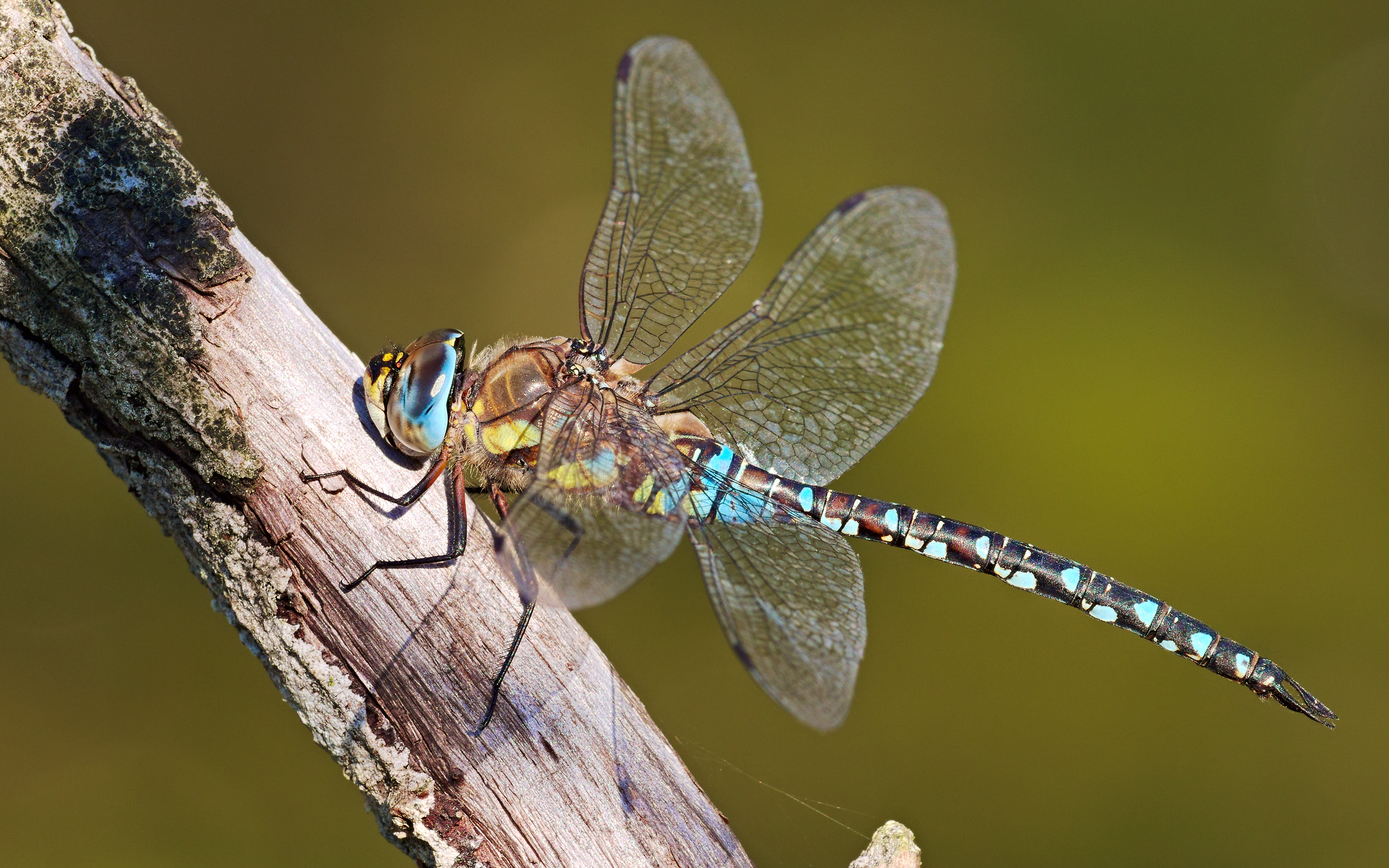 Migrant hawker - Aeshna mixta, male. Taken in Mannheim, Kirschgartshäuser Schläge by the Bruchgraben, Baden-Württemberg, Germany.